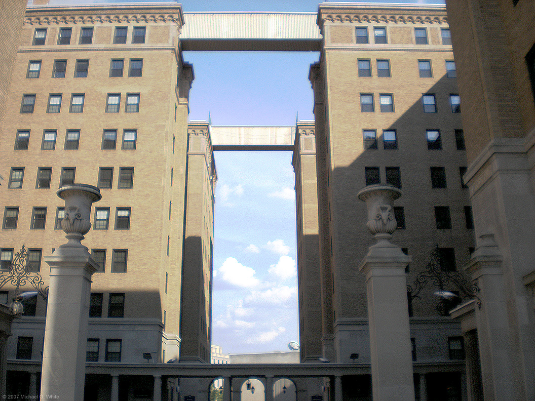 Schenley Quadrangle at the University of Pittsburgh. photo by Michael G White